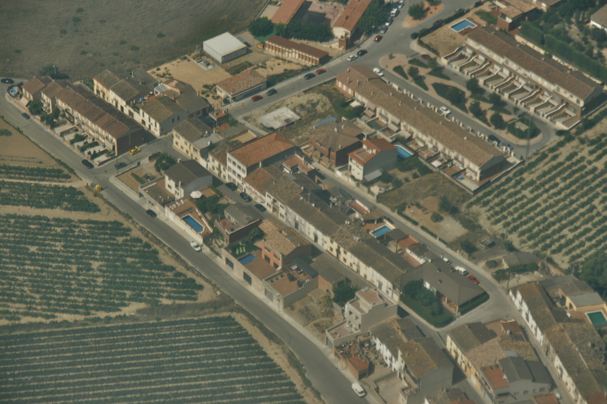 view of the village